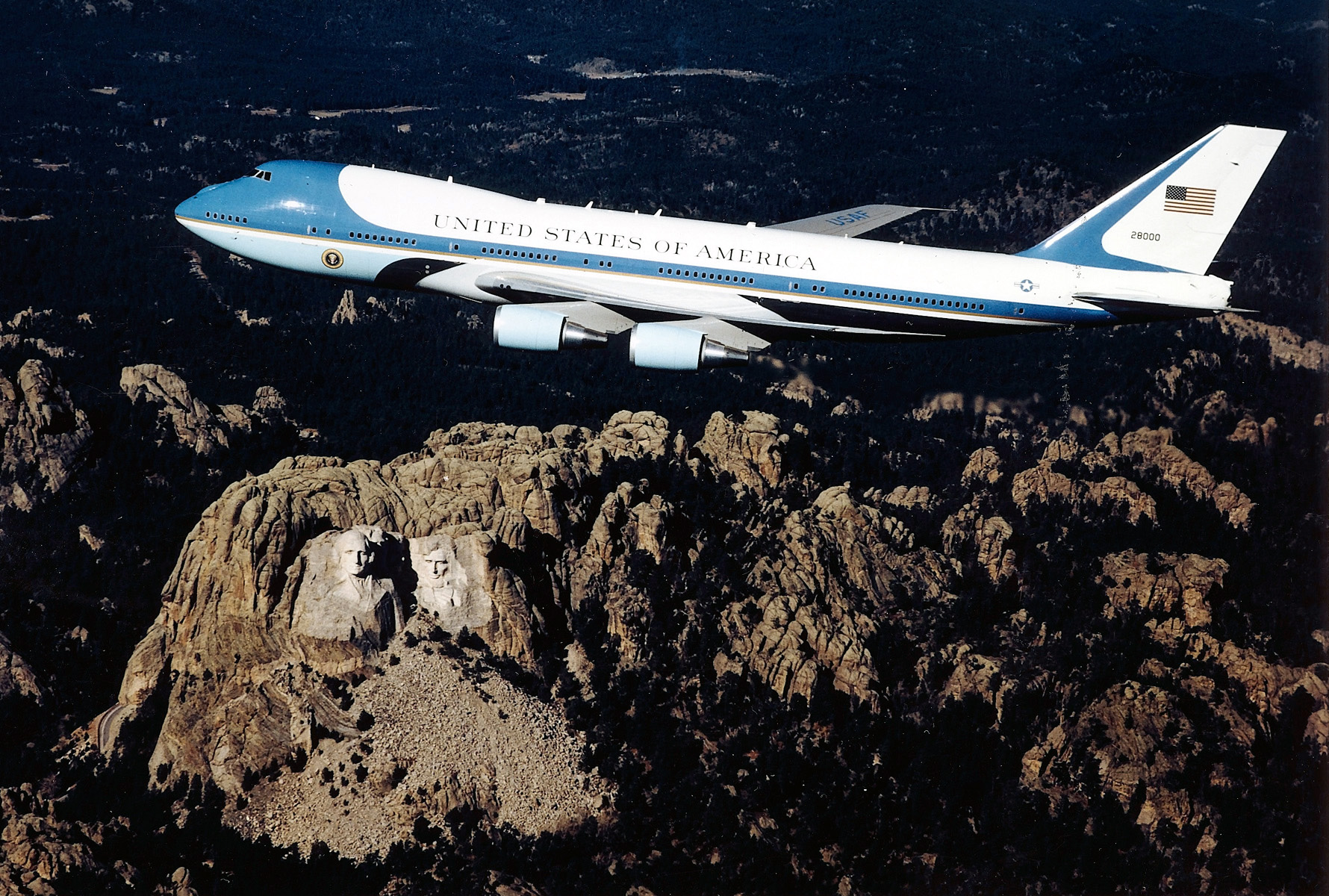 A Boeing VC-25A USAF 82-8000 above Mount Rushmore.